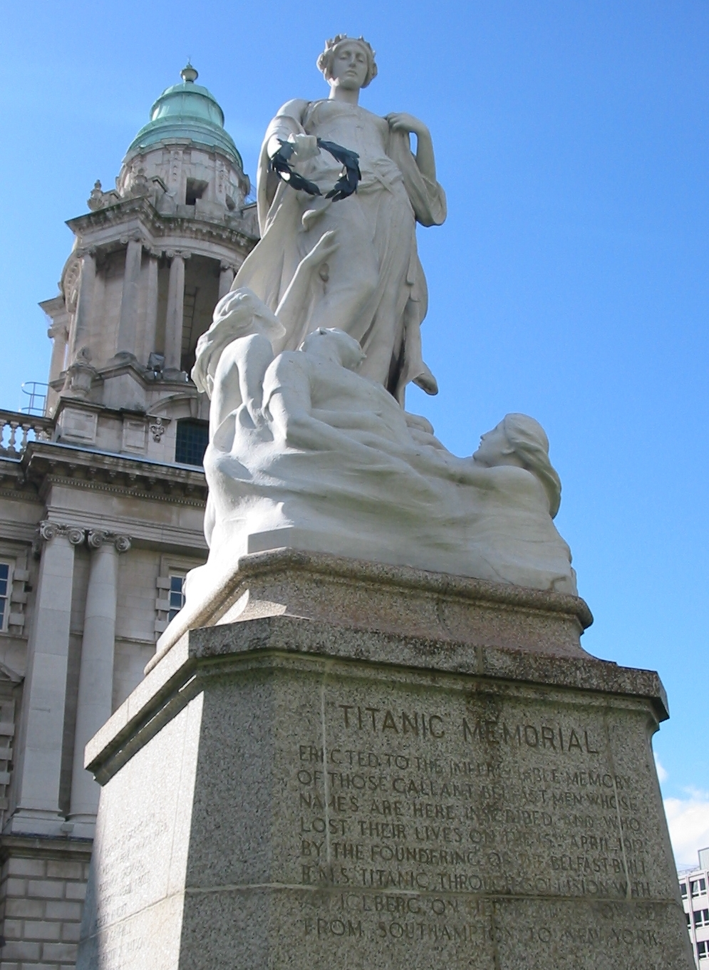 Titanic memorial in grounds of City Hall, Belfast